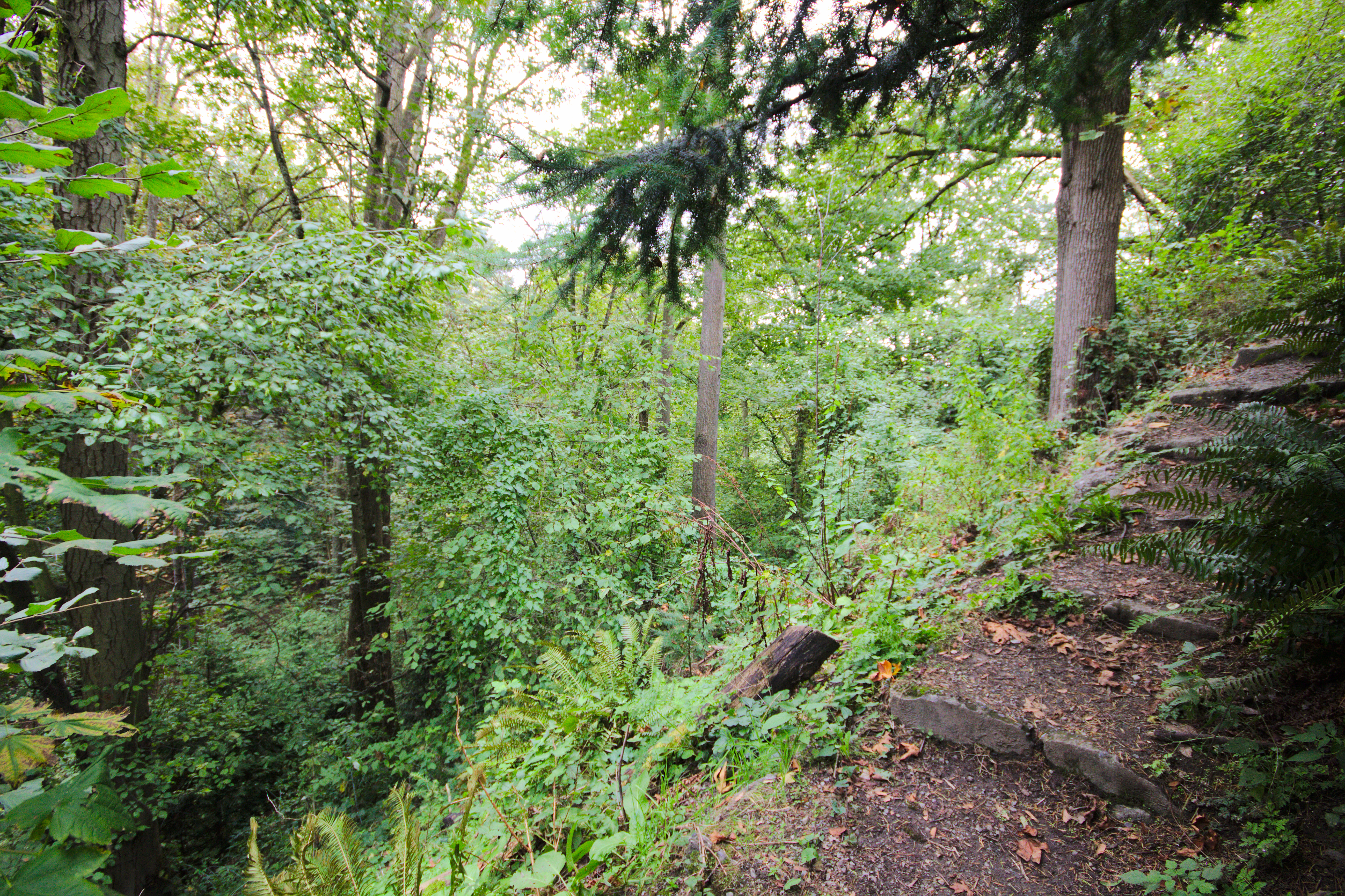 St. Mark's Greenbelt on the walking path that starts in the St. Mark's Episcopal Cathedral parking lot, Seattle, Washington